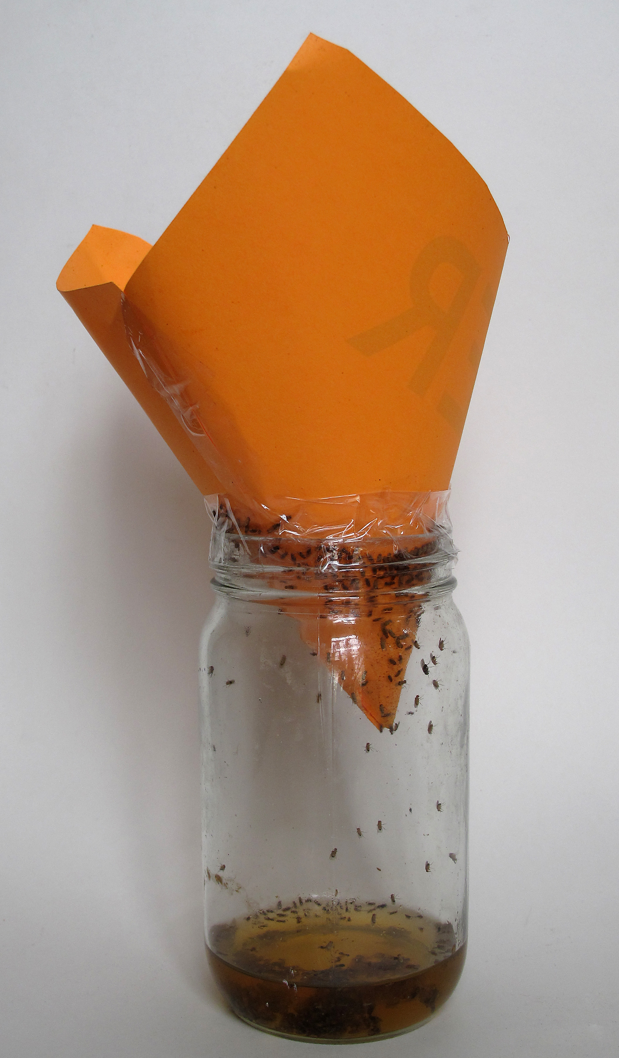 Trap for fruit flies. Heavy orange paper is rolled into a cone, and taped. A tiny hole is cut at the point of the cone. The cone is inserted into a jar containing the bait. In this trap, the bait is several ounces of fermenting kombucha tea, which strongly attracts the target organism, fruit or vinegar flies. Tape is then applied around the outside of the cone and jar, so that flies that enter the jar through the bottom of the cone cannot escape. After all the flies have drowned, or the bait has naturally dried out and the flies have died, the trap can be discarded. Fermenting fruit of any kind can be used; add a little water or apple cider vinegar to keep the trap moist for several days.